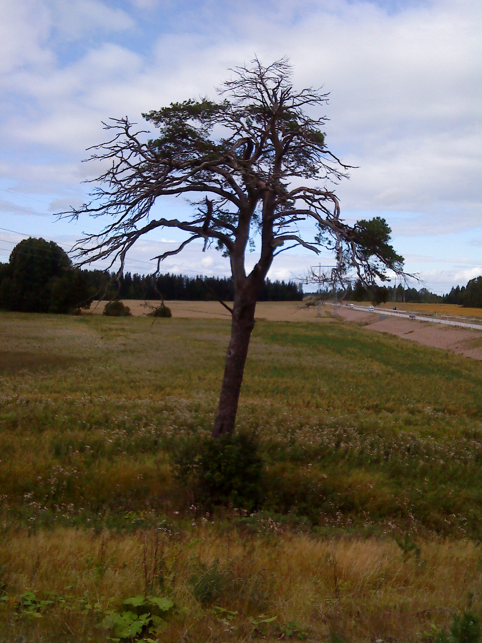 This is an old pinetree at countyroad C 714, Torkelsbo, Gryttby, Uppland, Sweden